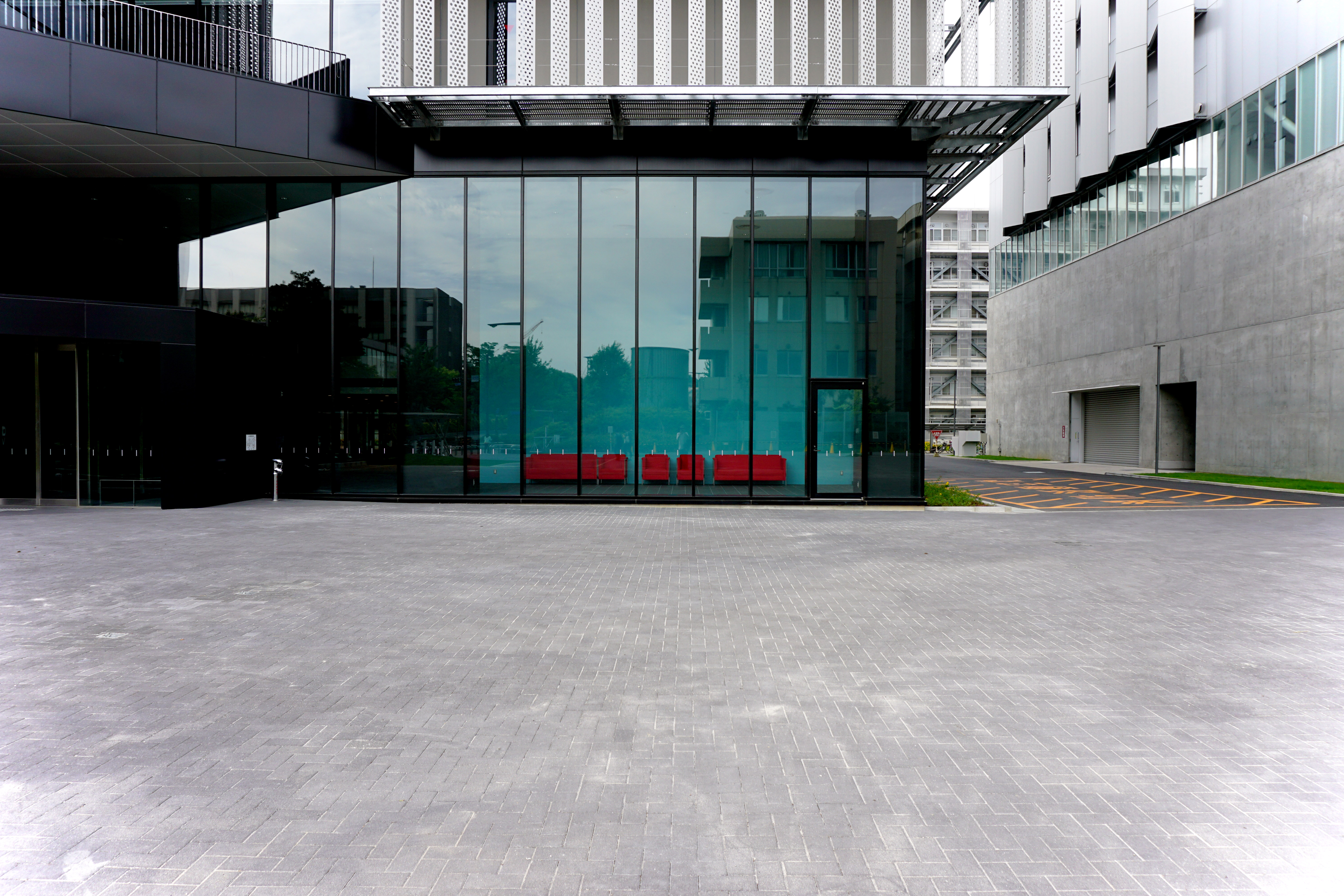 National Innovation Complex (Nagoya University Higashiyama Campus)